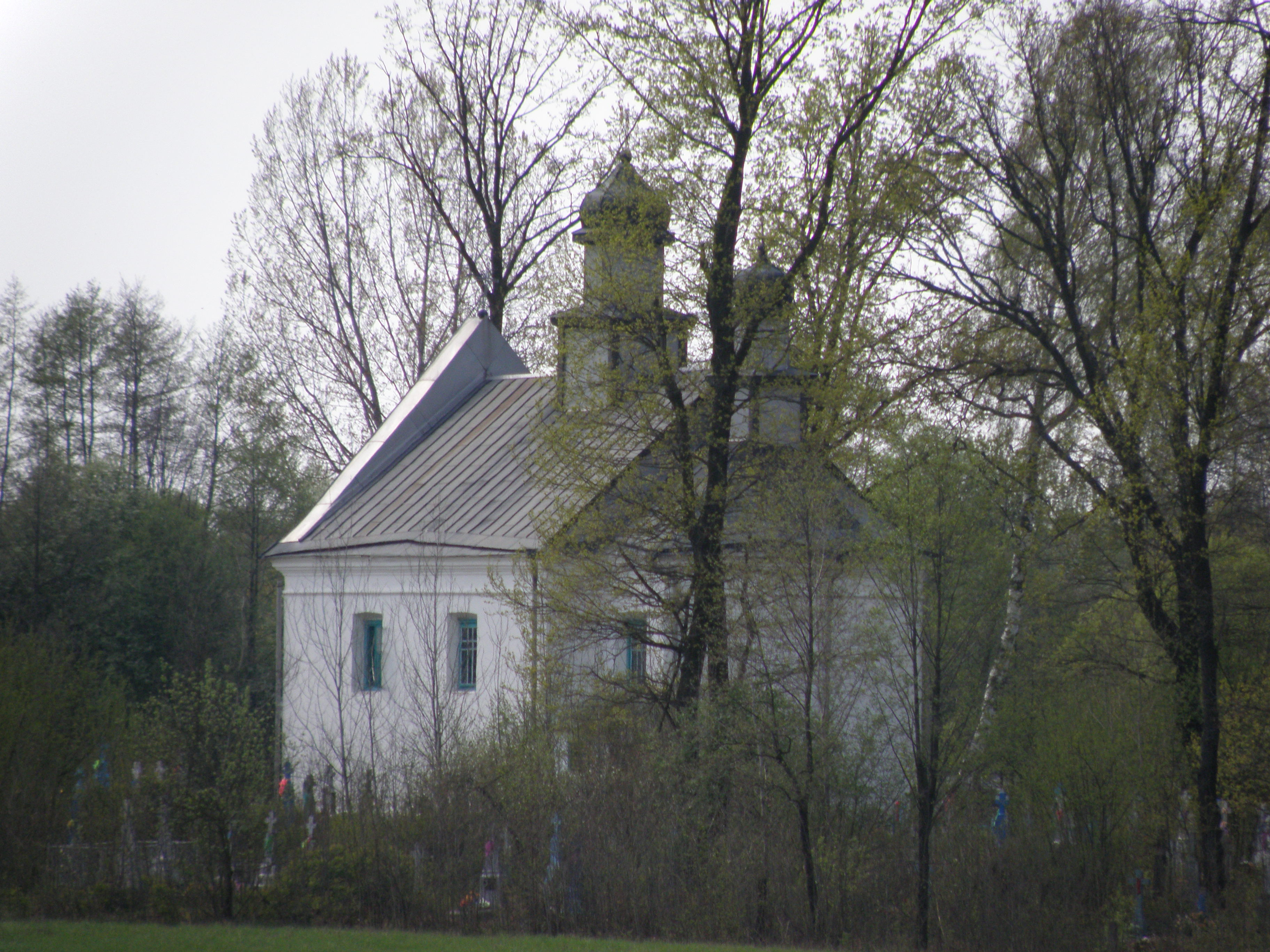 Church in Milzi village in Volun oblast (Ukraine).